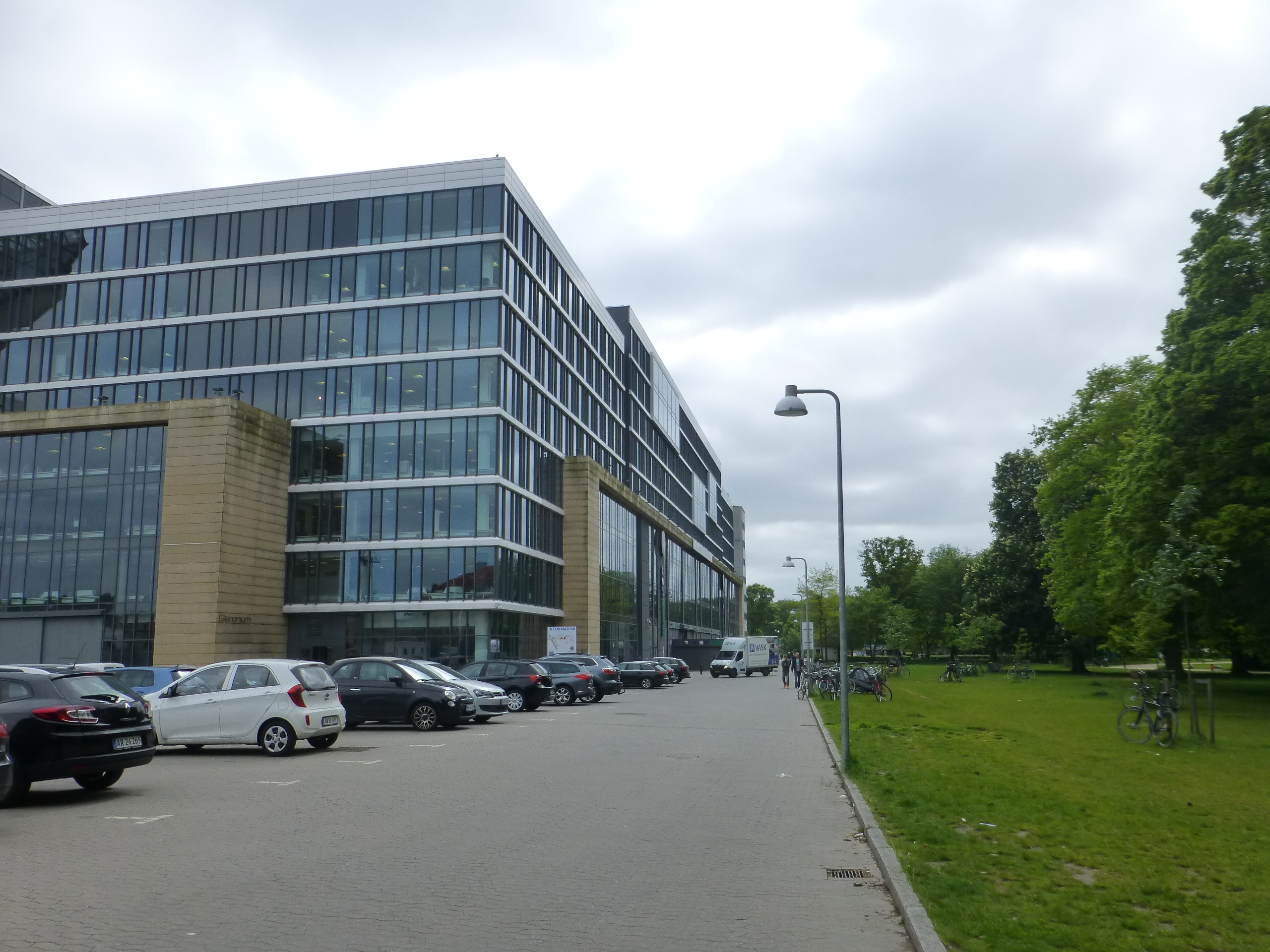 The street Per Henrik Lings Allé at the national soccer stadium Parken in Østerbro in Copenhagen.